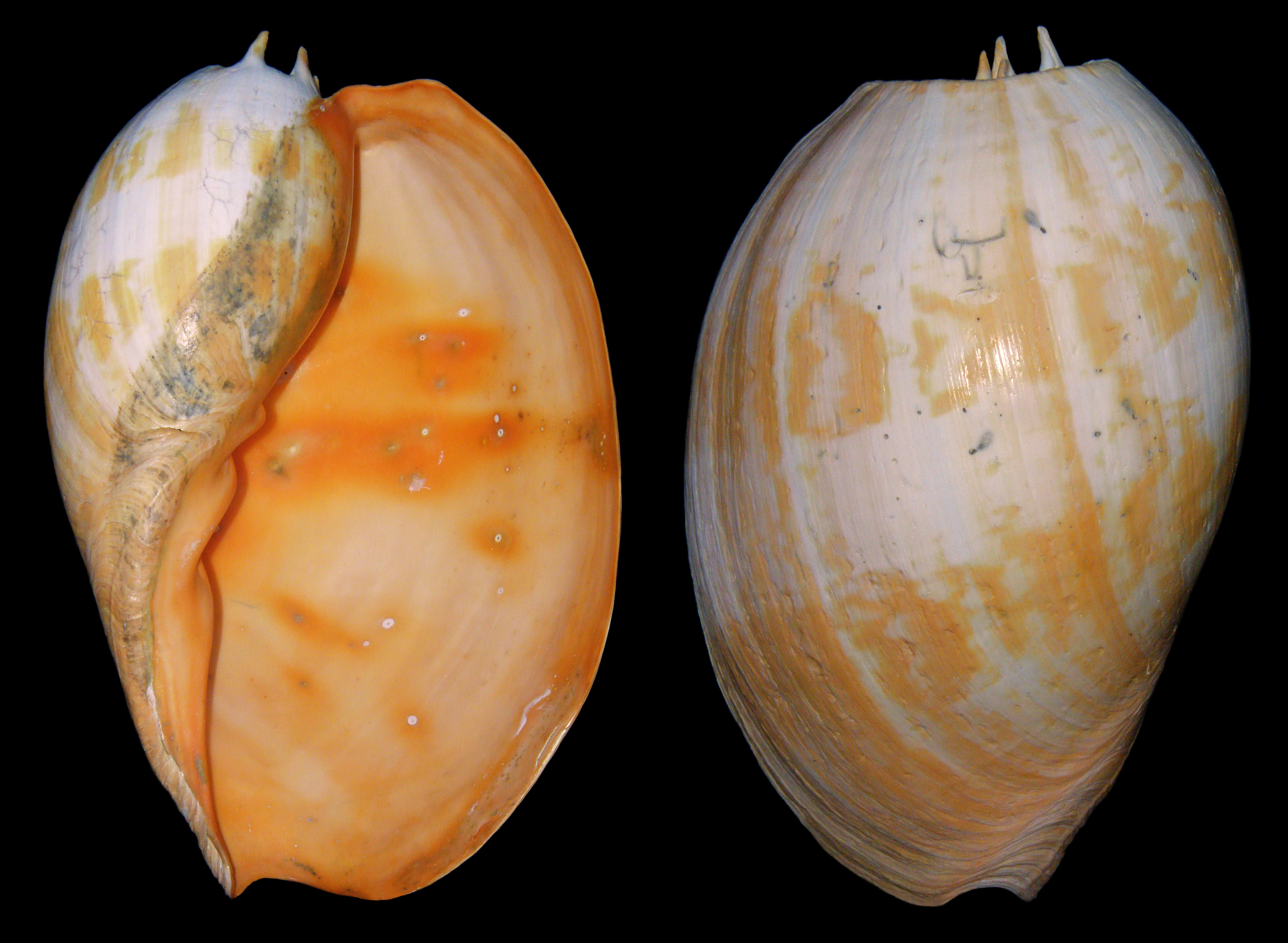 Melo amphora Lightfoot, 1786, Indonesia, Madura Island, 42 cm.